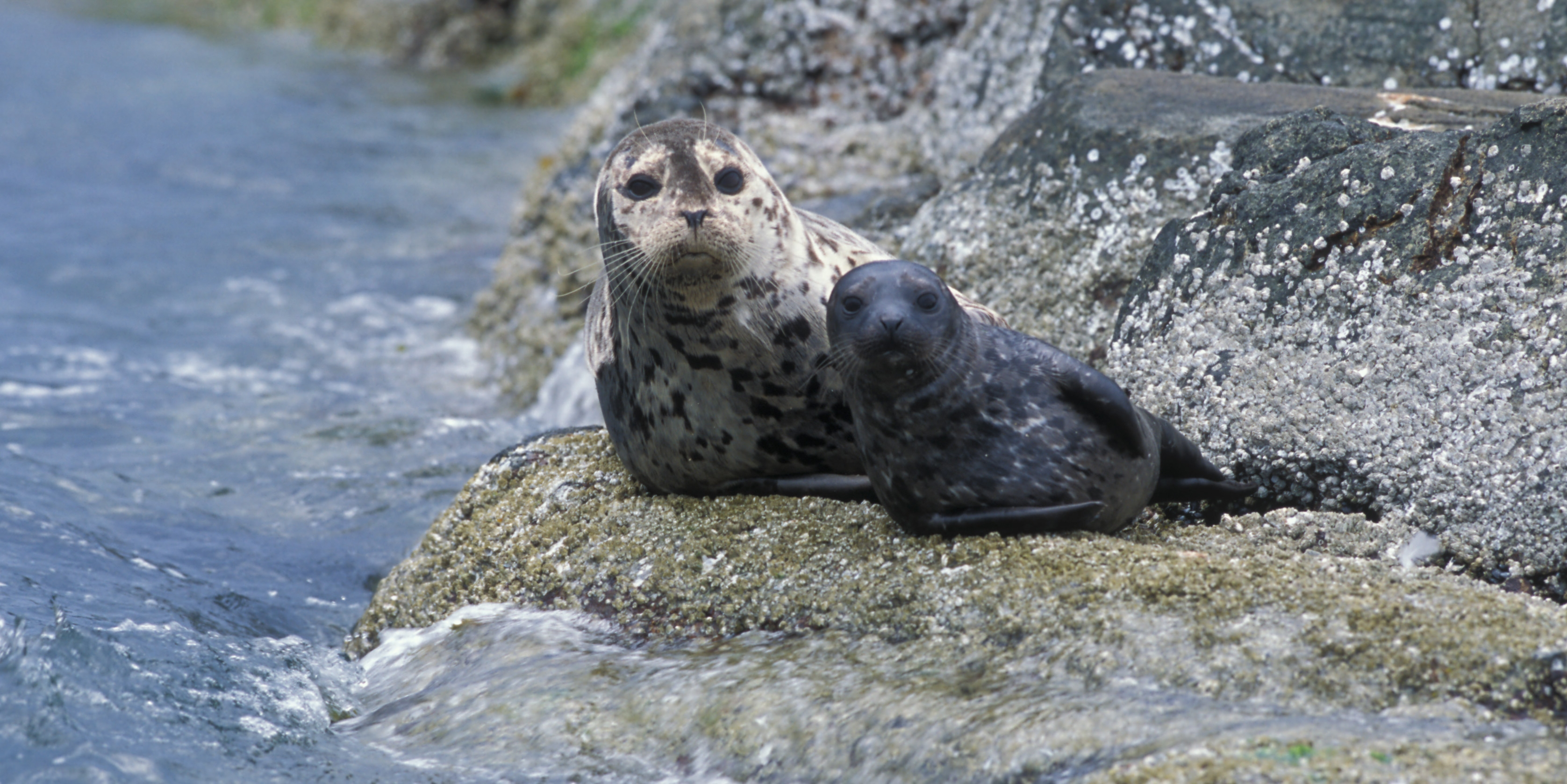 Harbor seal and pup. Note barnacle encrusted rocks ending at higher reaches of tide.